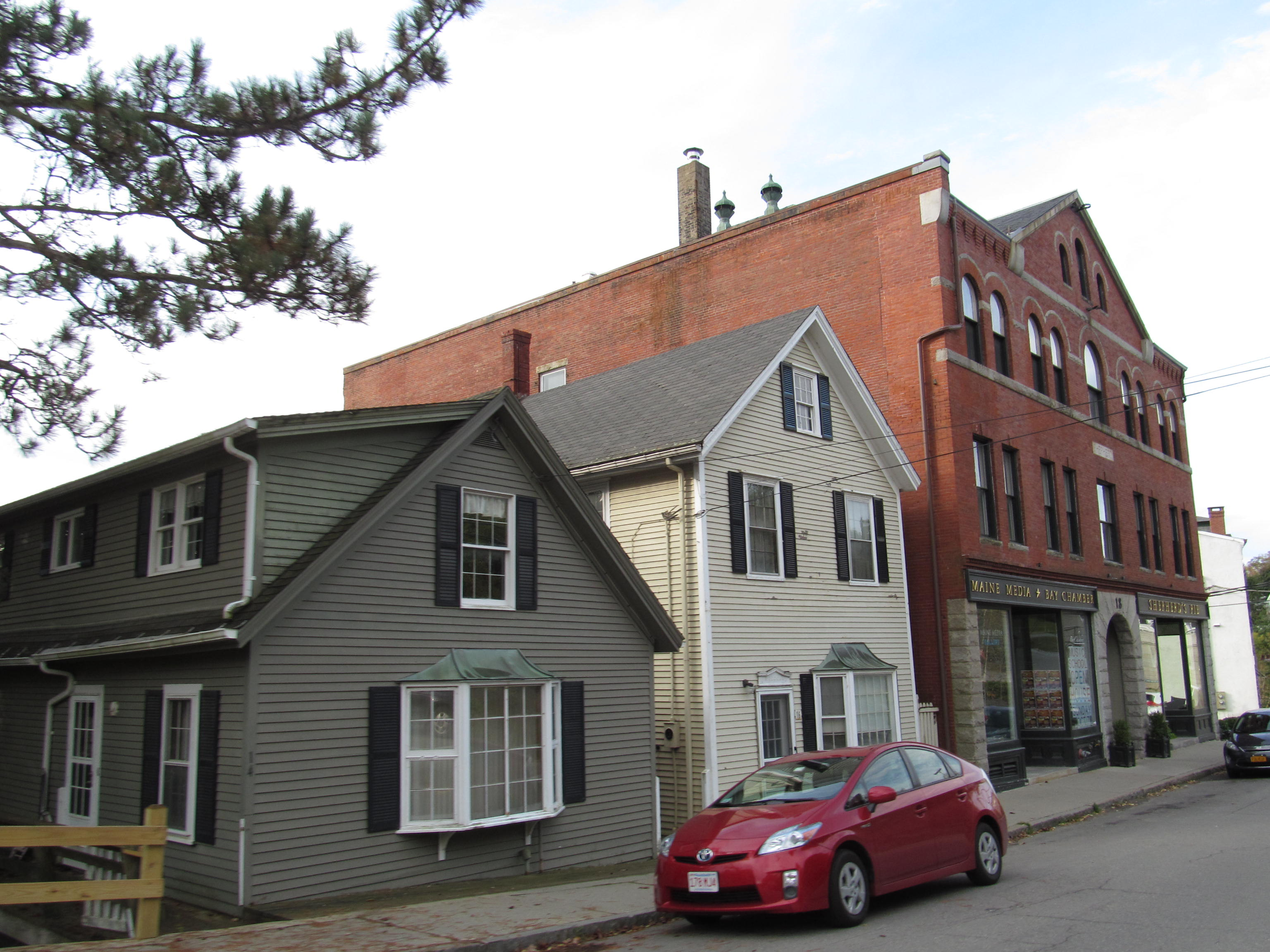 Carleton (Shepherd) Block, Rockport, Maine. Part of the Rockport Historic District.